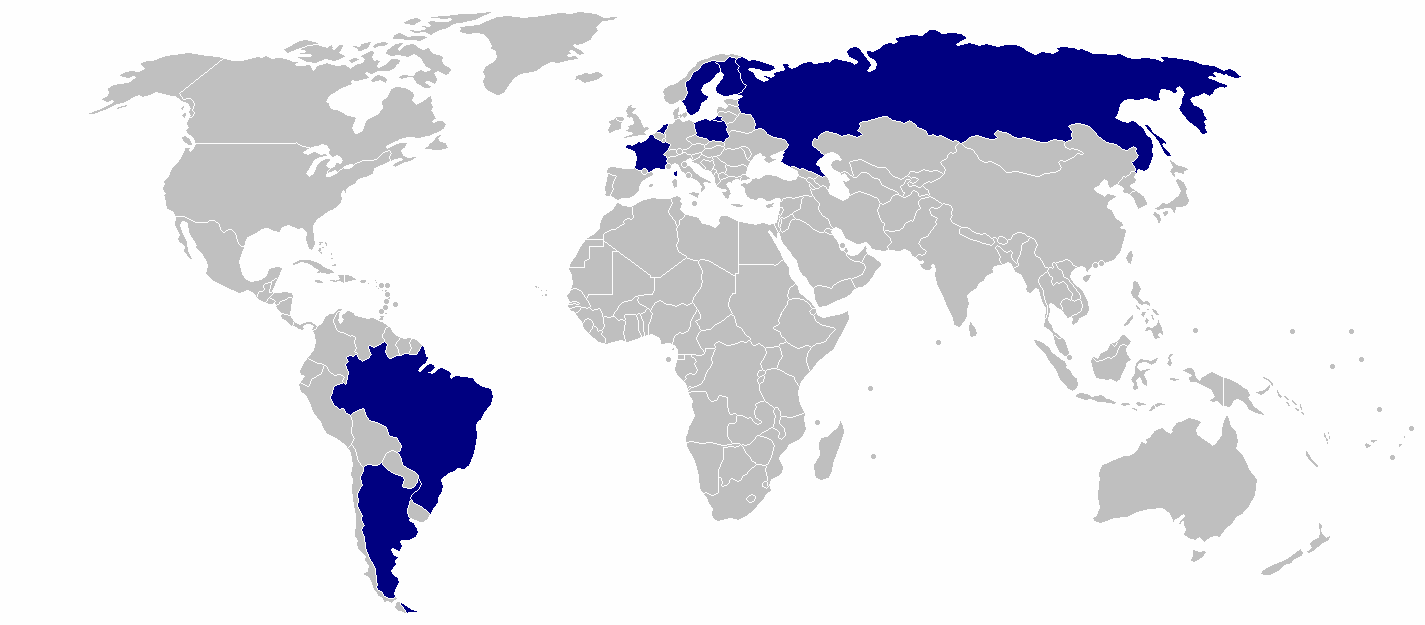 Scania world production units